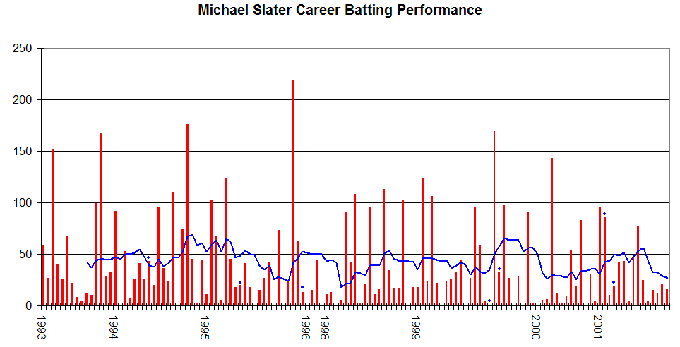 This graph details the Test Match performance of Michael Slater. It was created by Raven4x4x. The red bars indicate the player's test match innings, while the blue line shows the average of the ten most recent innings at that point. Note that this average cannot be calculated for the first nine innings. The blue dots indicate innings in which Slater finished not-out. This graph was generated with Microsoft Excel 2002, using data from Cricinfo and .au. Zibba